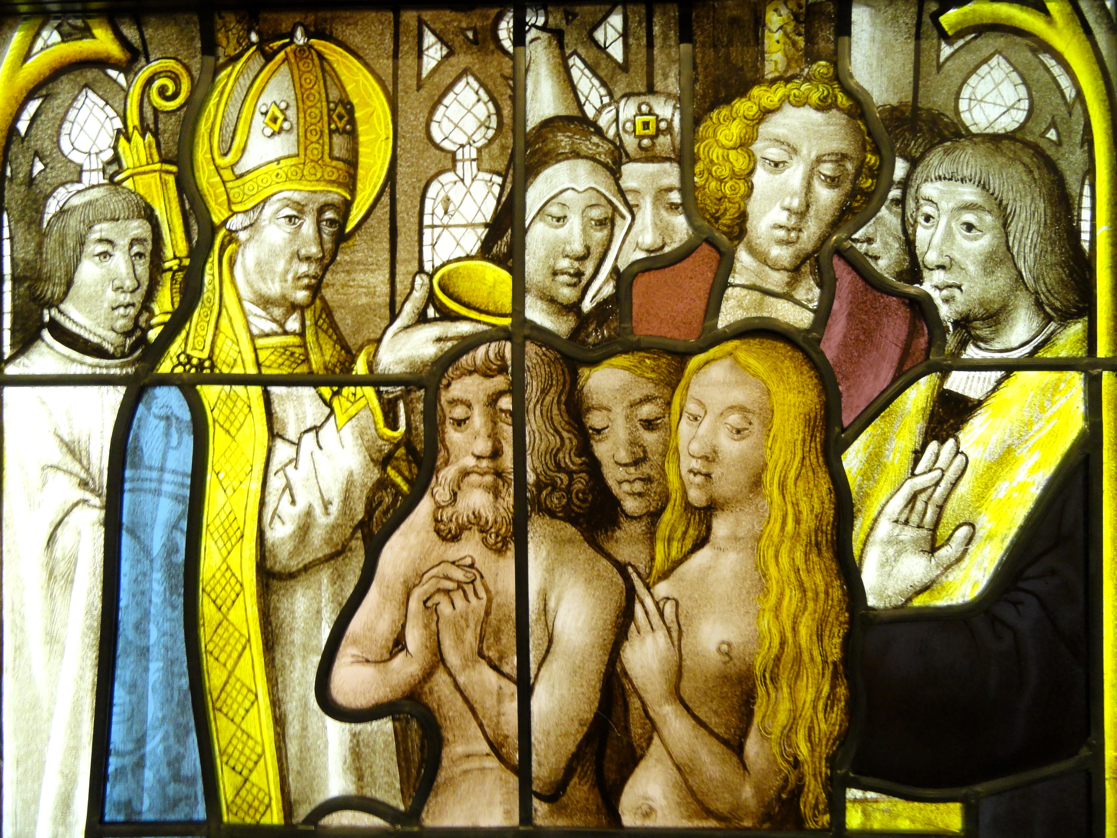 Exhibit in the Nelson-Atkins Museum of Art, Kansas City, Missouri, USA. ; I took this photograph and release it into the public domain.